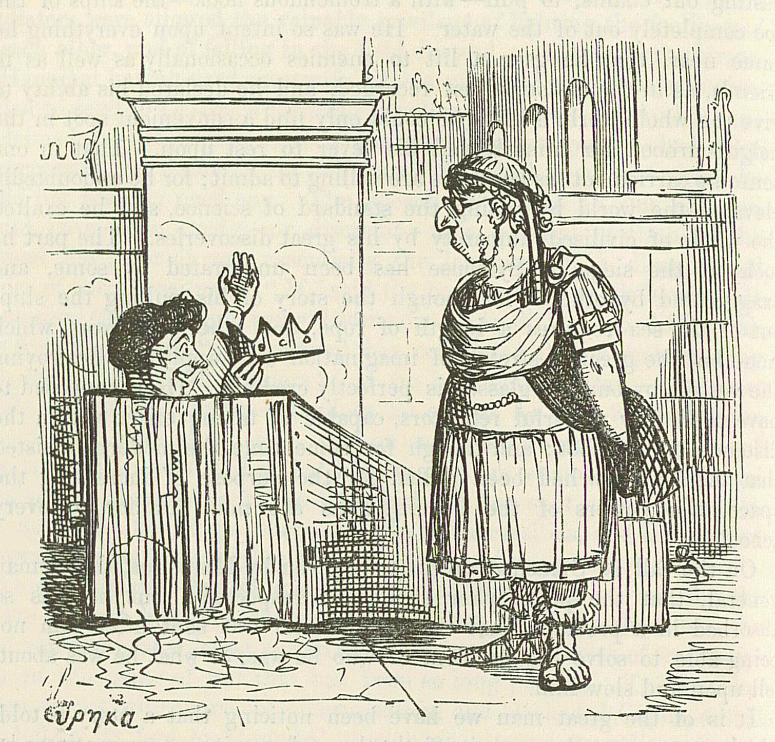 Image by John Leech, from: The Comic History of Rome by Gilbert Abbott A Beckett. Bradbury, Evans & Co, London, 1850s Archimedes taking a Warm Bath